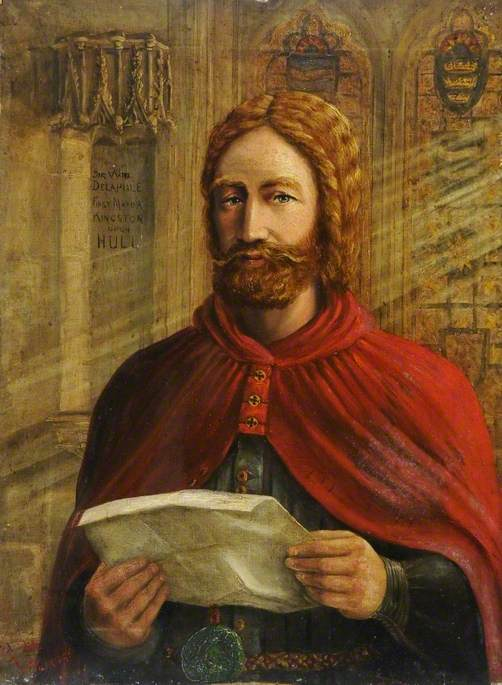 Sir William de la Pole (d. 1366), Chief Baron of the Exchequer and Mayor of Kingston-upon-Hull, as painted by Thomas Wilridge in 1880.